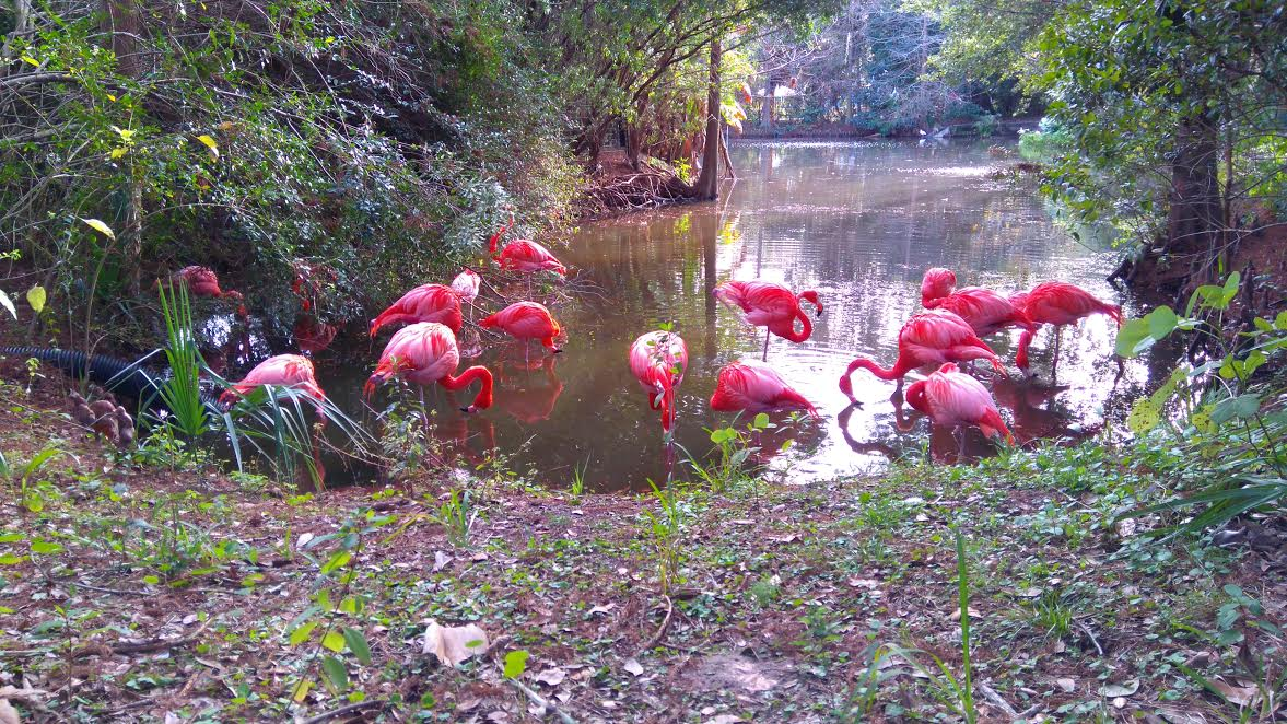 Flamingos in captivity, Jacksonville ZOO.